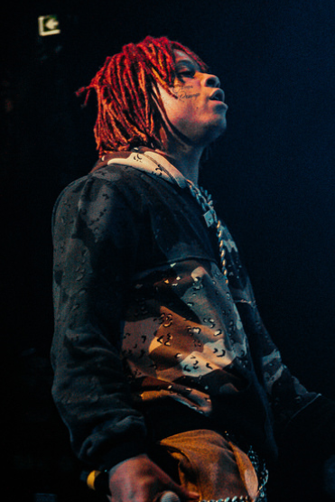 Trippie Redd performing in March 2018